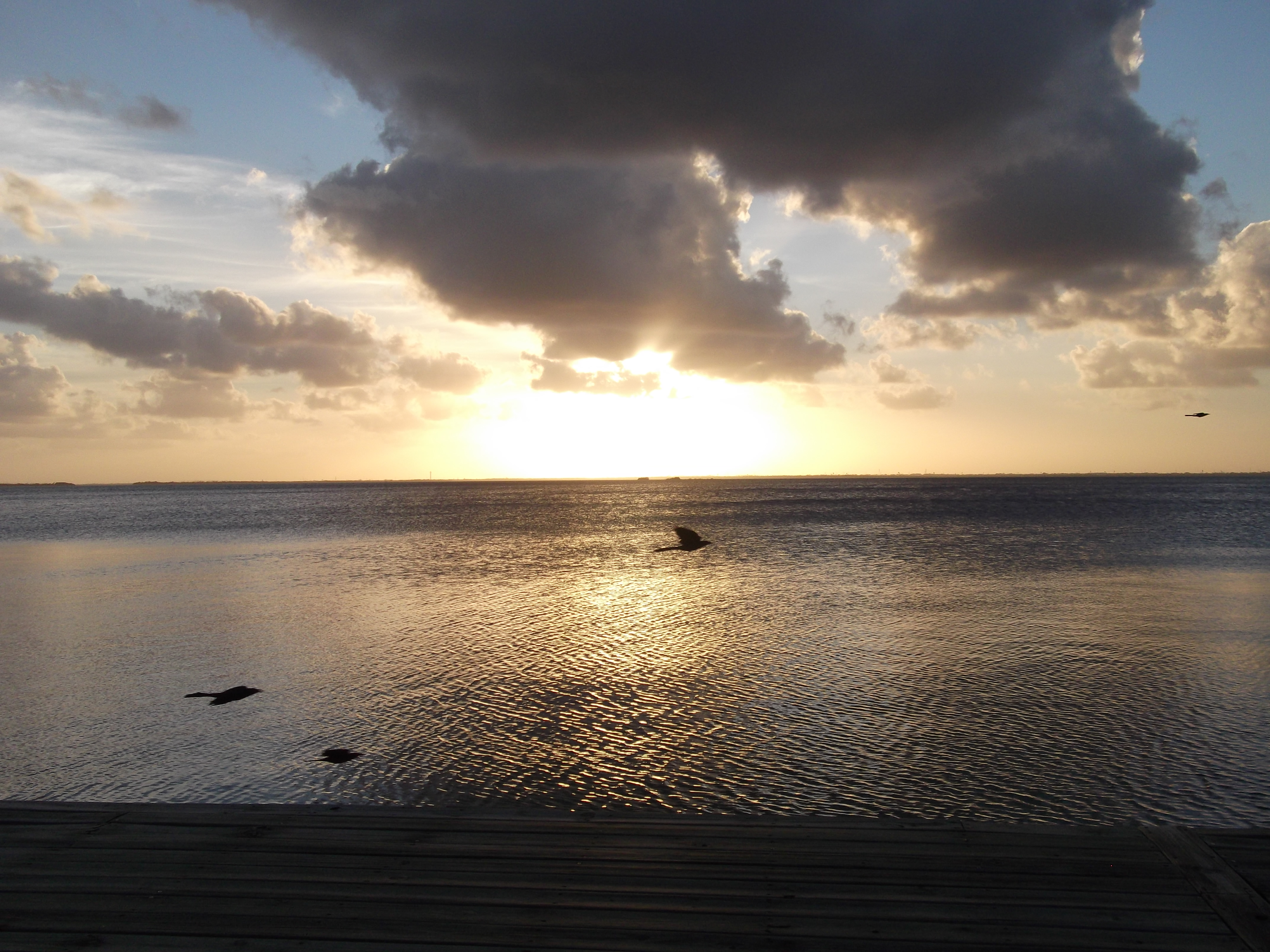 Atardecer en la Laguna Nichpté